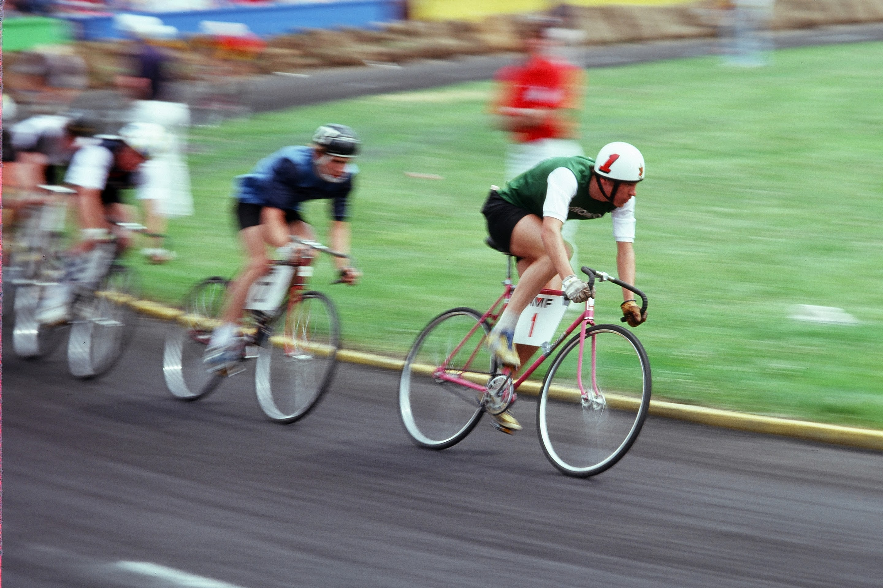 Participants in the Little 500 bicycle race at Indiana University Bloomington in May, 1977.